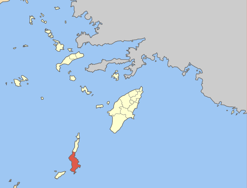 Locator map of Karpathos municipality (Δήμος Καρπάθου) in Dodecanese prefecture (Νομός Δωδεκανήσου) in Greece.